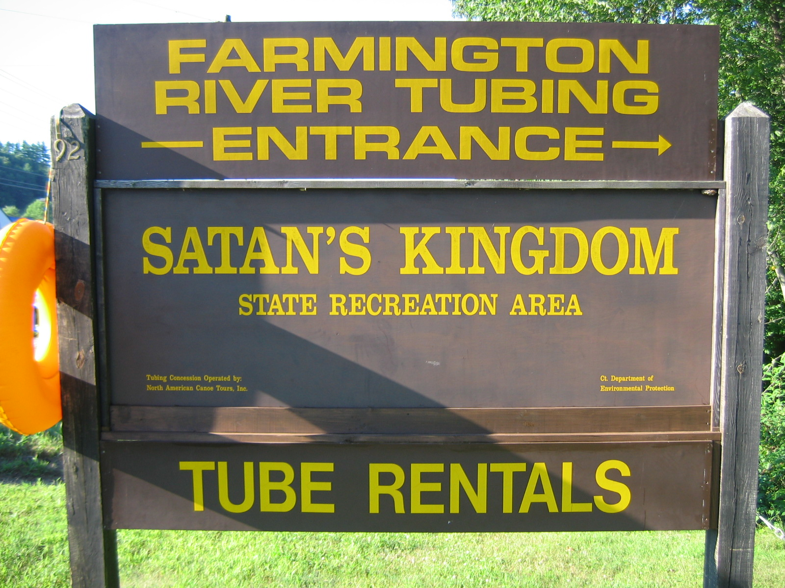 Entrance to Satan's Kingdom, Farmington river, Connecticut